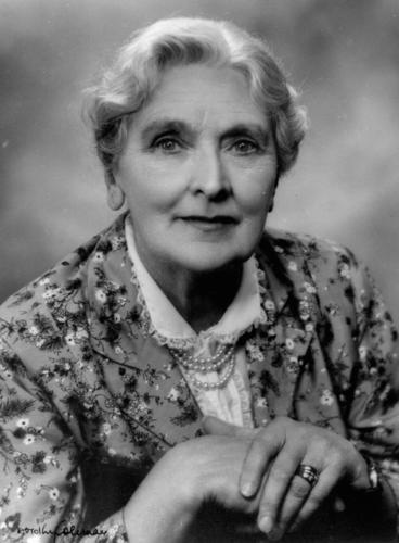 Actress Sybil Thorndike photographed in 1943 while visiting Brisbane, Australia